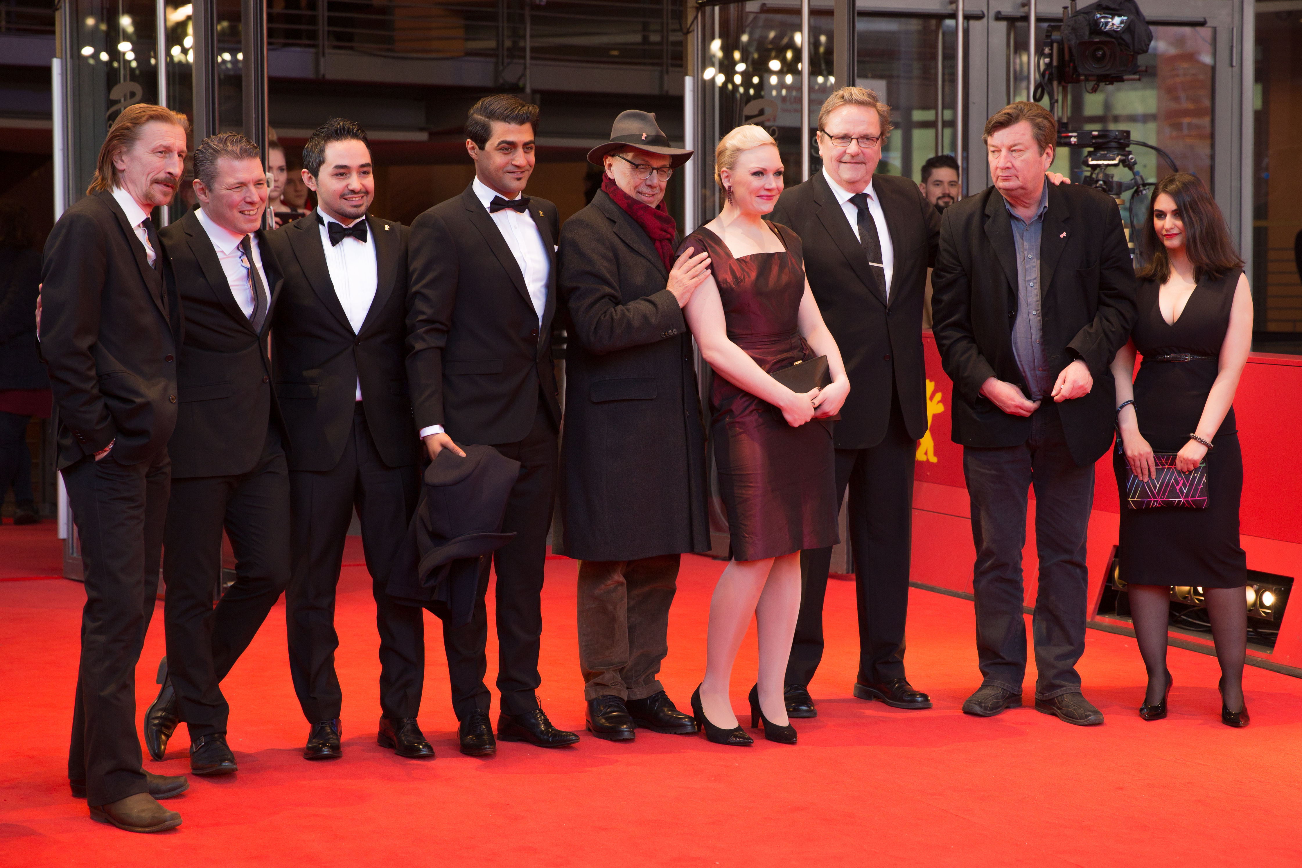 The film team of The Other Side of Hope (Toivon tuolla puolen) at the Berlinale 2017